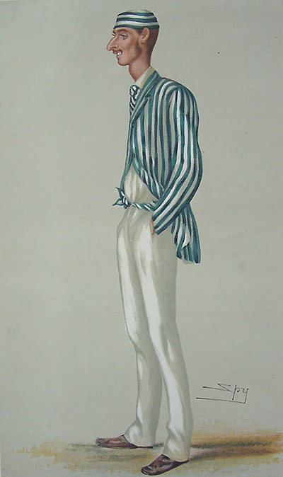 Caricature of Frederick Robert "Fred" Spofforth (1853 – 1926). Caption read "The Demon Bowler".